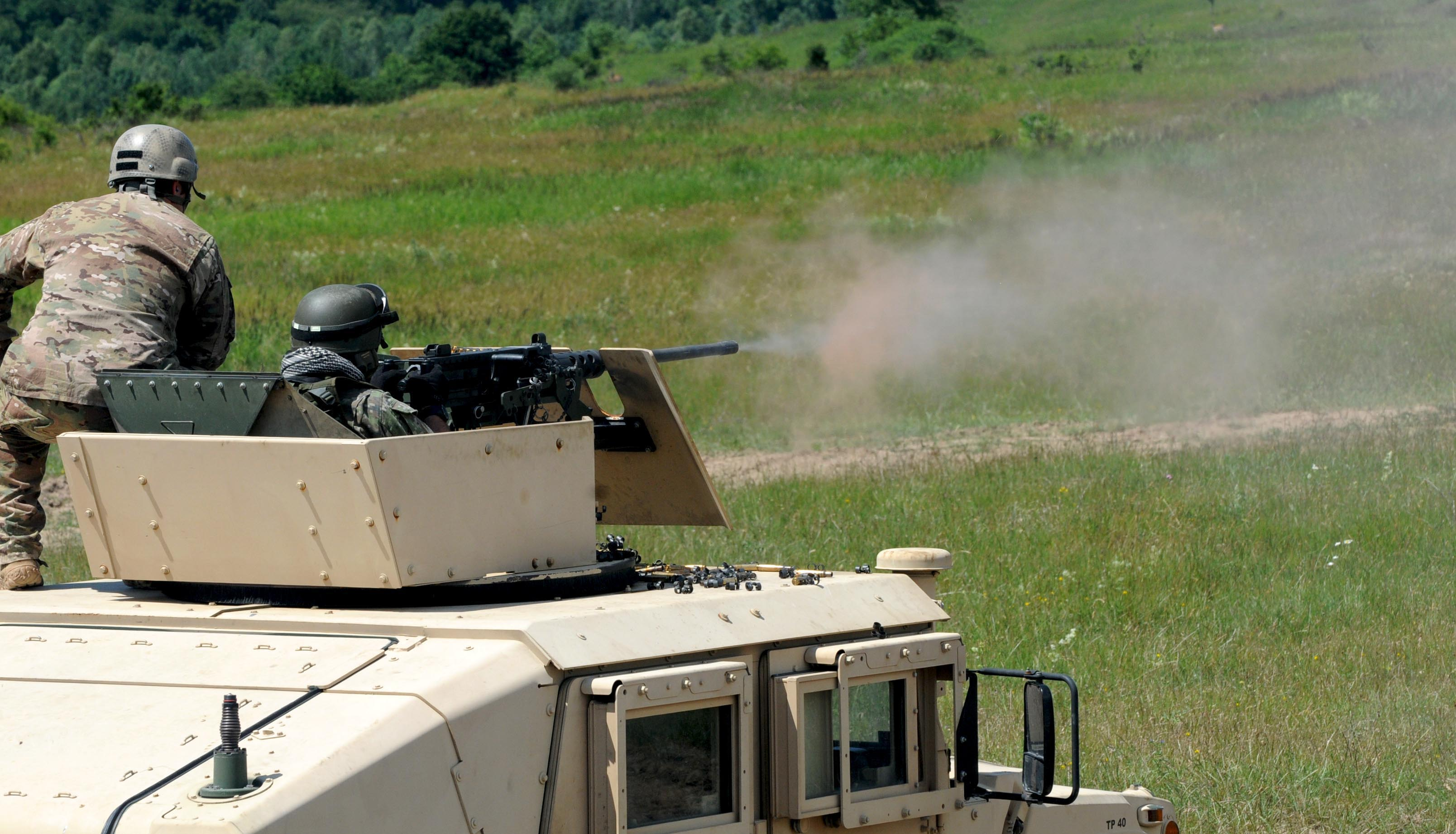 Slovak 5th Special Forces Regiment trains with U.S. 10th Special Forces Group (Airborne) in Slovak main training base Lest before their mutual deployment to Afghanistan.